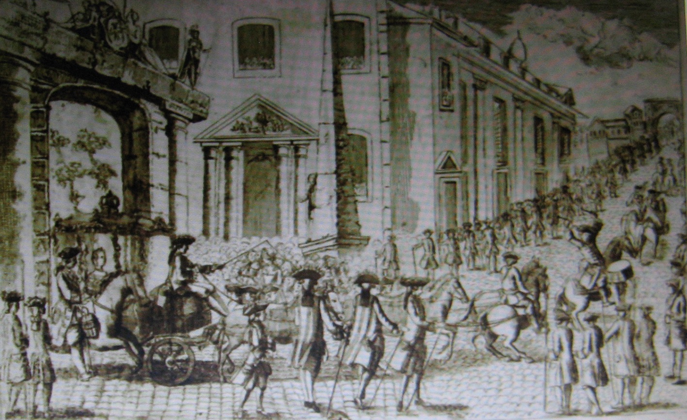 Contemporary French engraving commemorating the arrival at Strasbourg on 7 May 1770 of Archduchess Marie Antoinette, new Dauphine of France, on her way to Versailles.